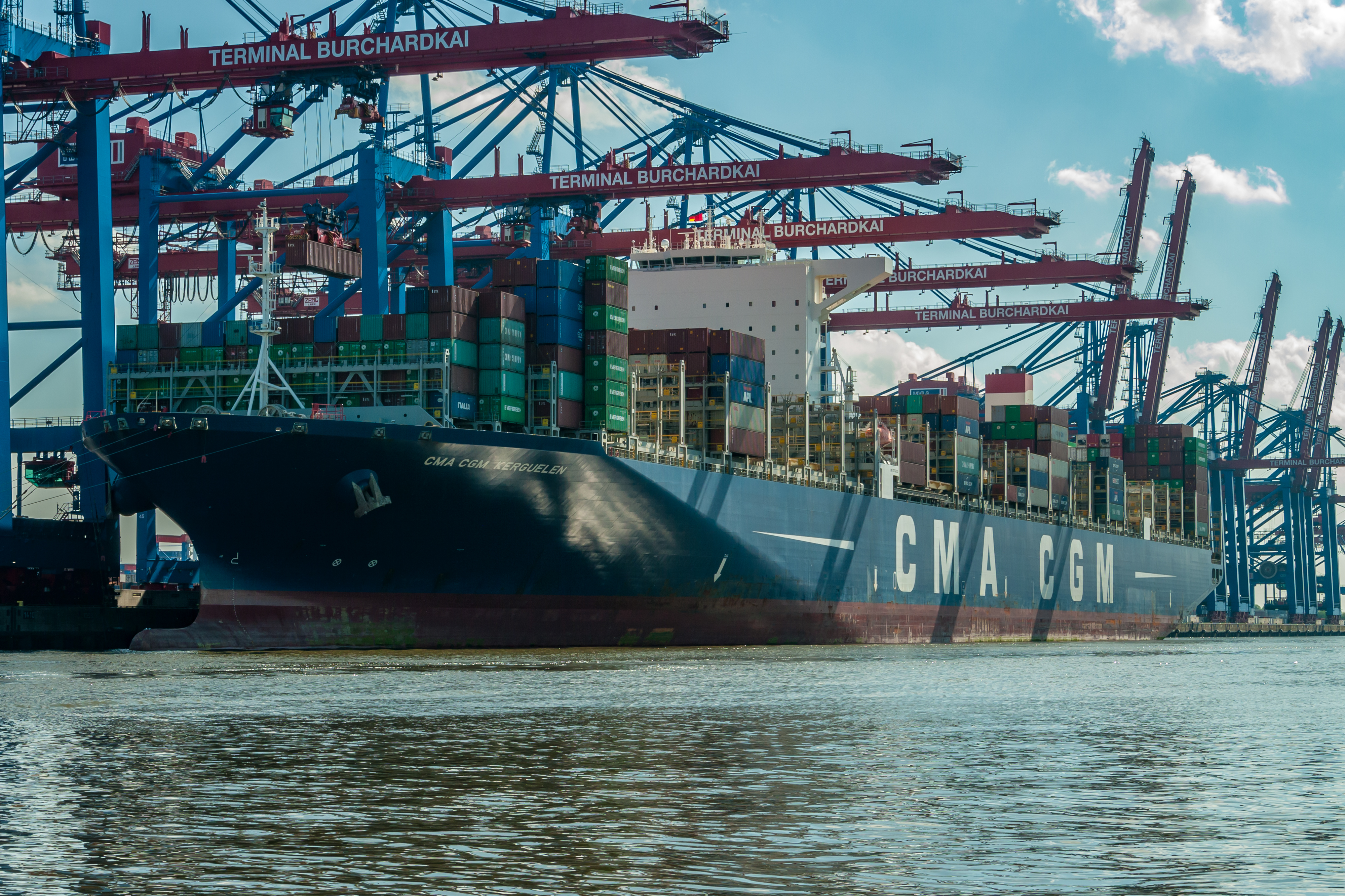 CMA CGM Kerguelen at Container Terminal Burchardkai